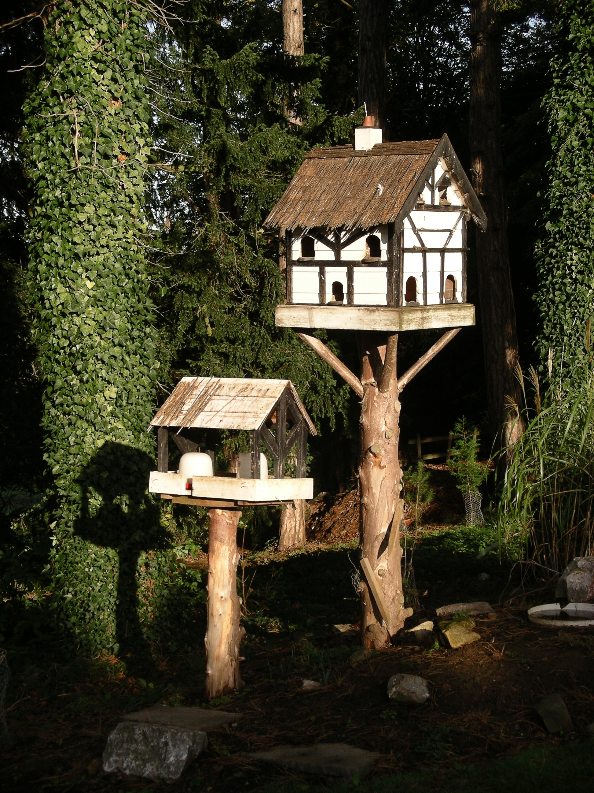 A very grand multiple bird box and bird feeding station at Tortworth Court